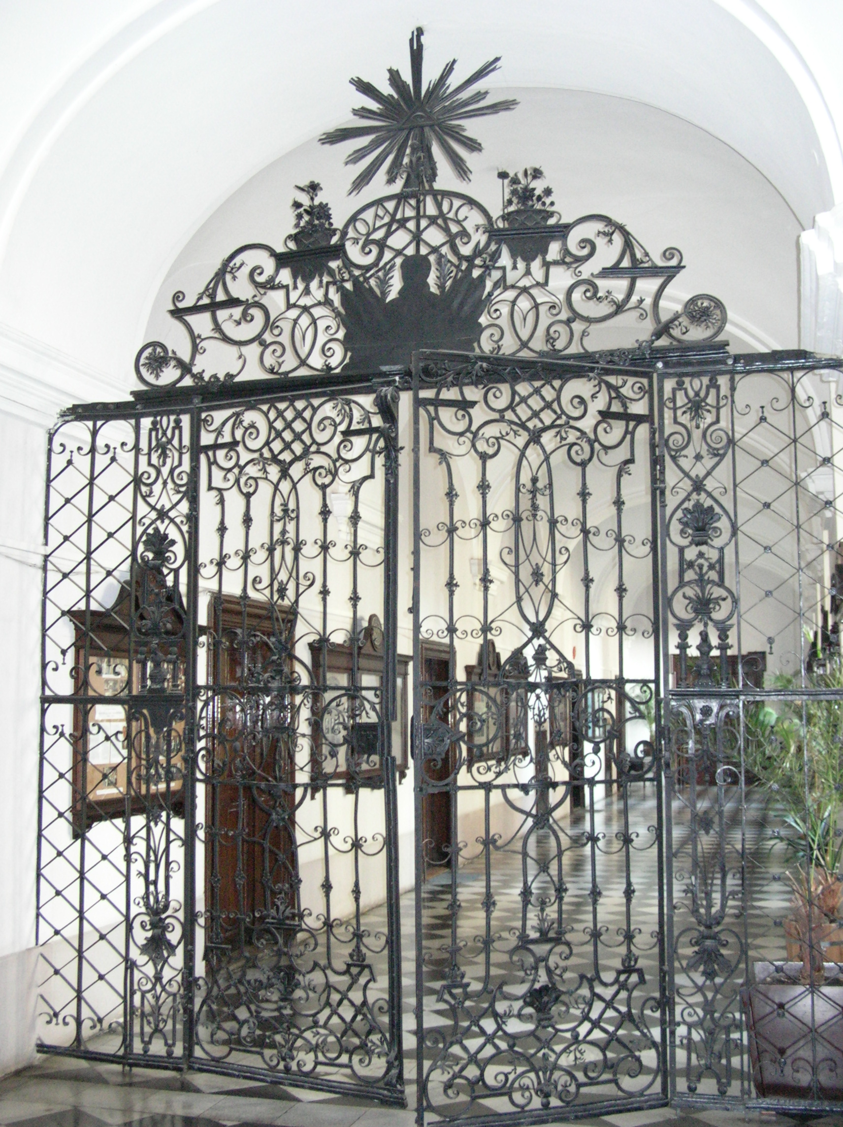 Wroclaw University interior, antique grate